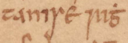 An excerpt from folio 23v of Oxford Bodleian Library MS Rawlinson B 489 (the Annals of Ulster). The excerpt concerns the office of tánaise ríg.